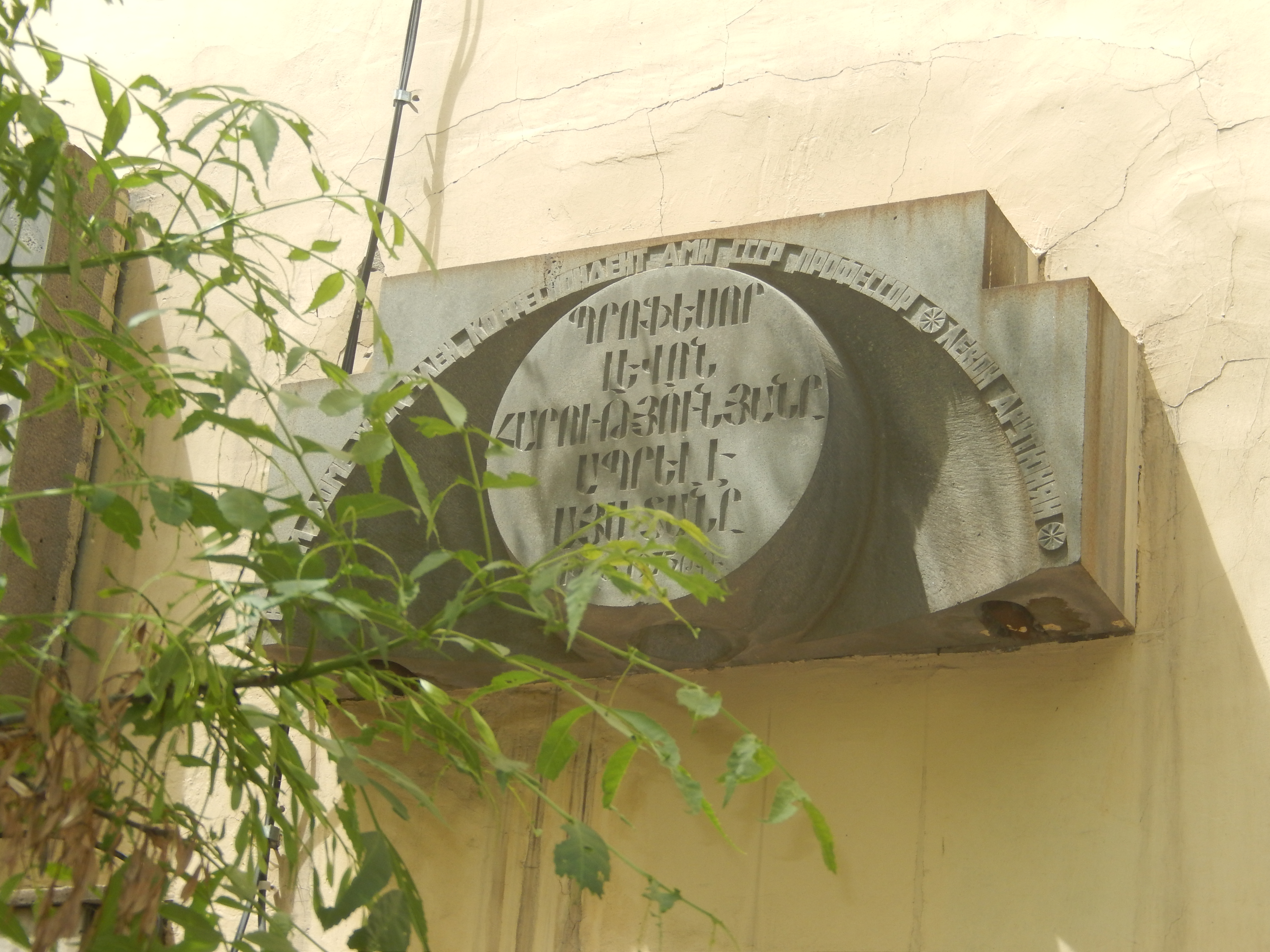 Plaques on Nalbandyan street